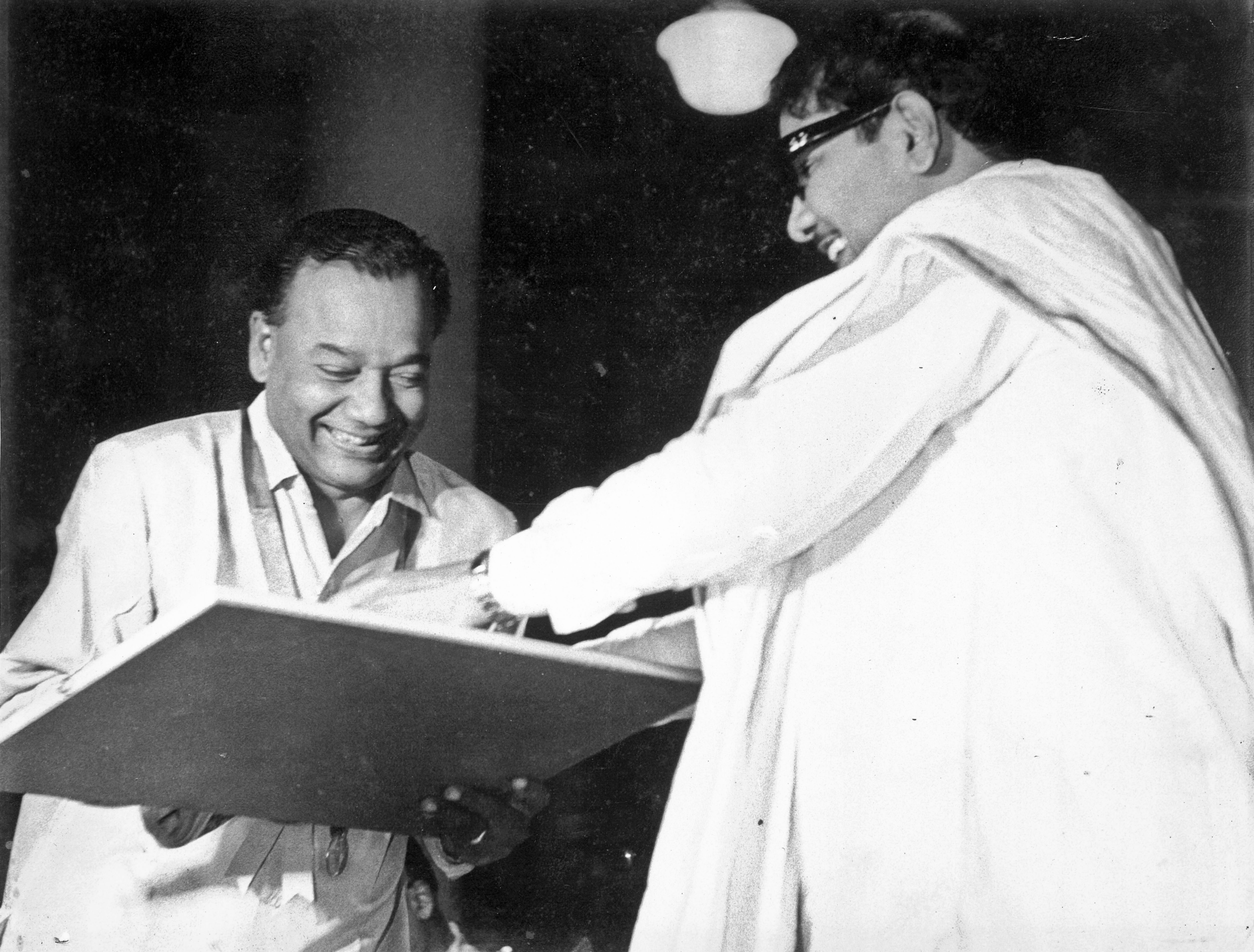 Receiving the Kalaimamani Award from the then Chief Minister of Tamilnadu Mr.M.Karunanidhi